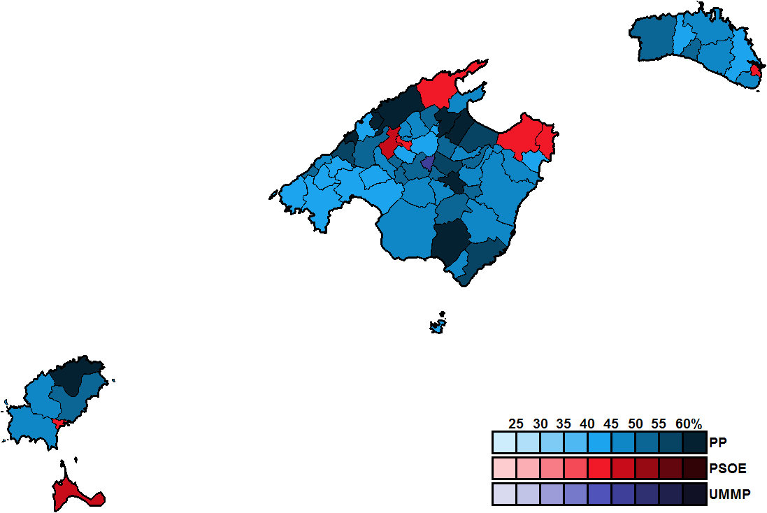 Balearic Islands Spanish Congress Electoral District 1993 Election Municipal Vote Share